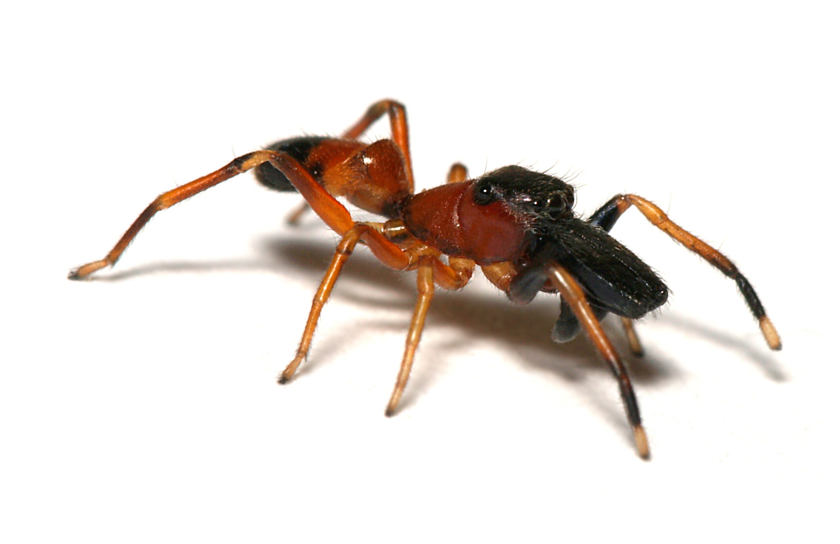 male Myrmarachne formicaria from Cologne, Germany.